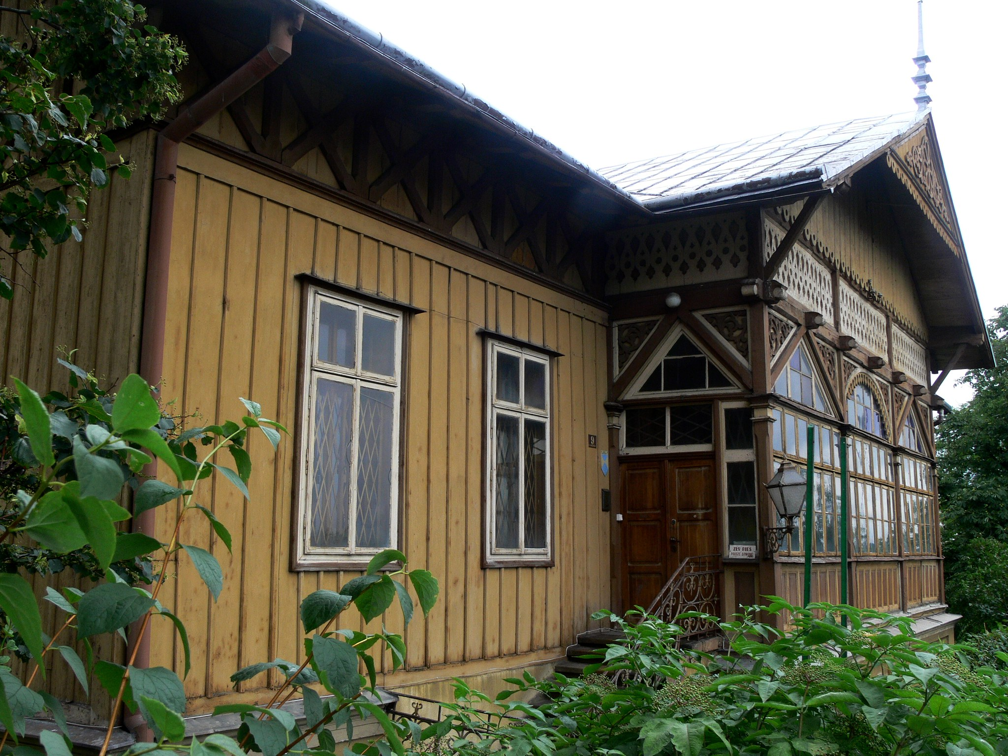 House of Ignacy Bielecki in Rymanów, Poland